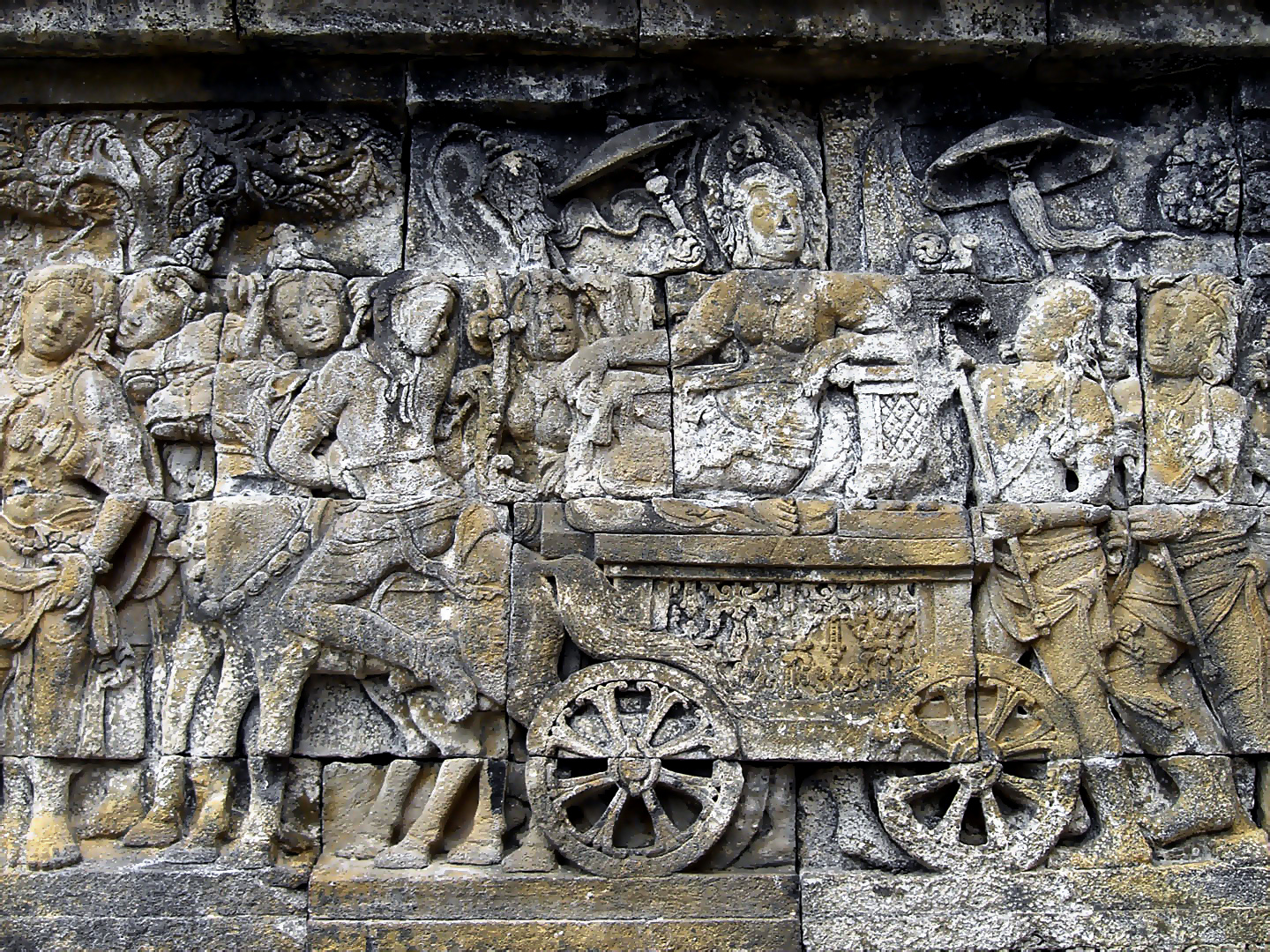 Queen Maya retreat to Lumbini to gave birth to Prince Siddharta Gautama (Buddha), the panel of Lalitavistara, Borobudur, Central Java, Indonesia.